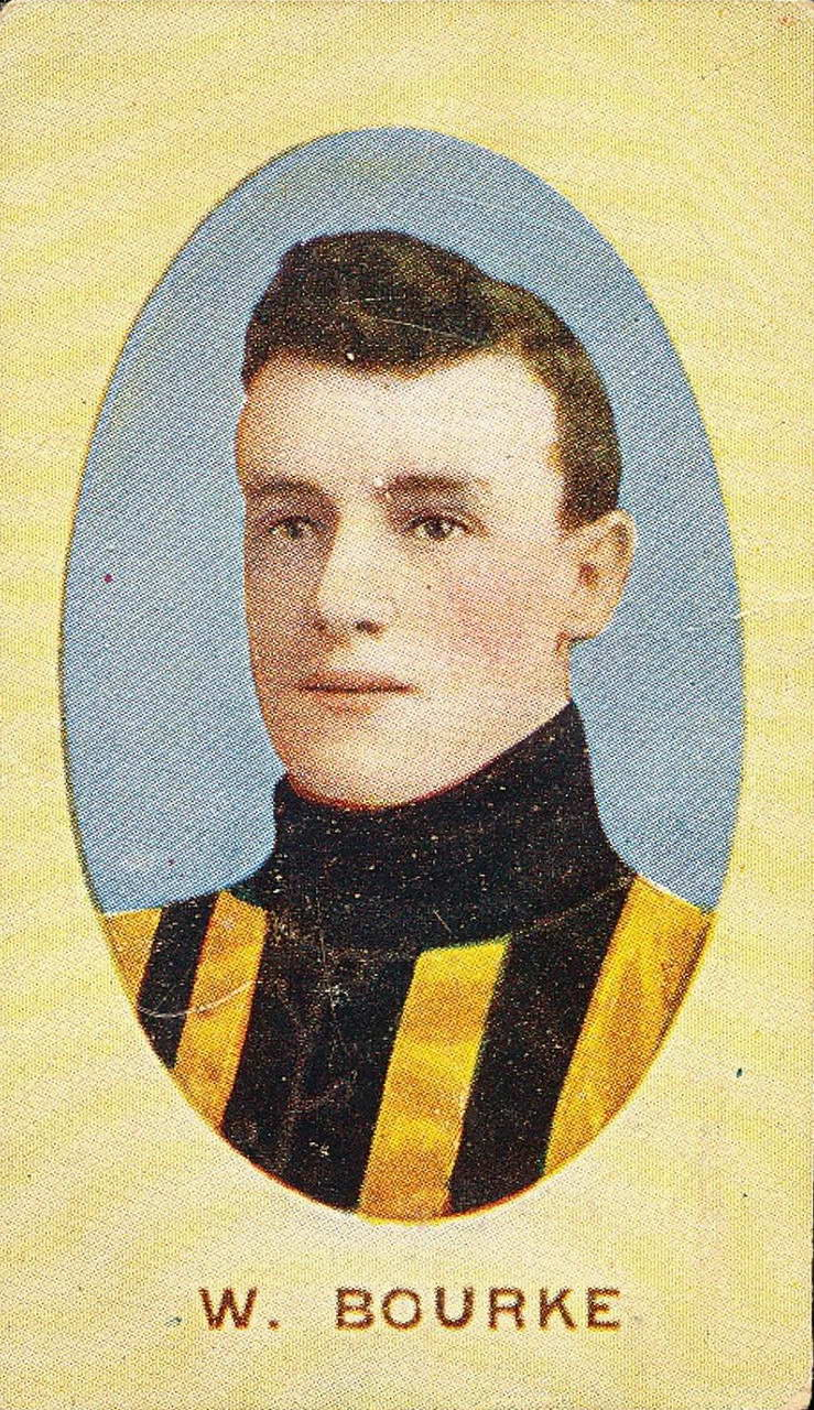 Cigarette card of Bill Bourke from the Sniders & Abrahams 1910 series